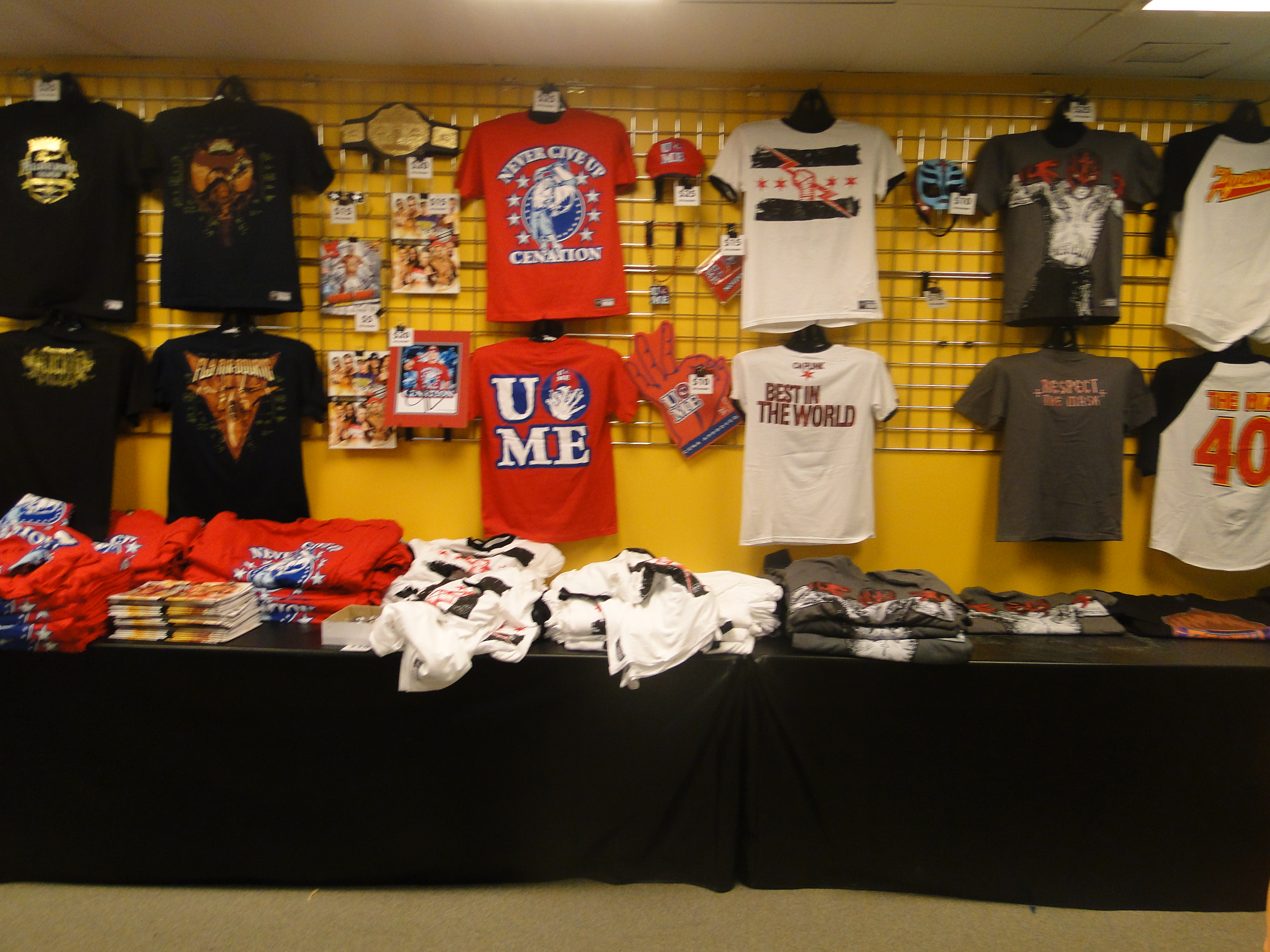 A WWE Merchandise stand at a live event in San Juan, Puerto Rico.